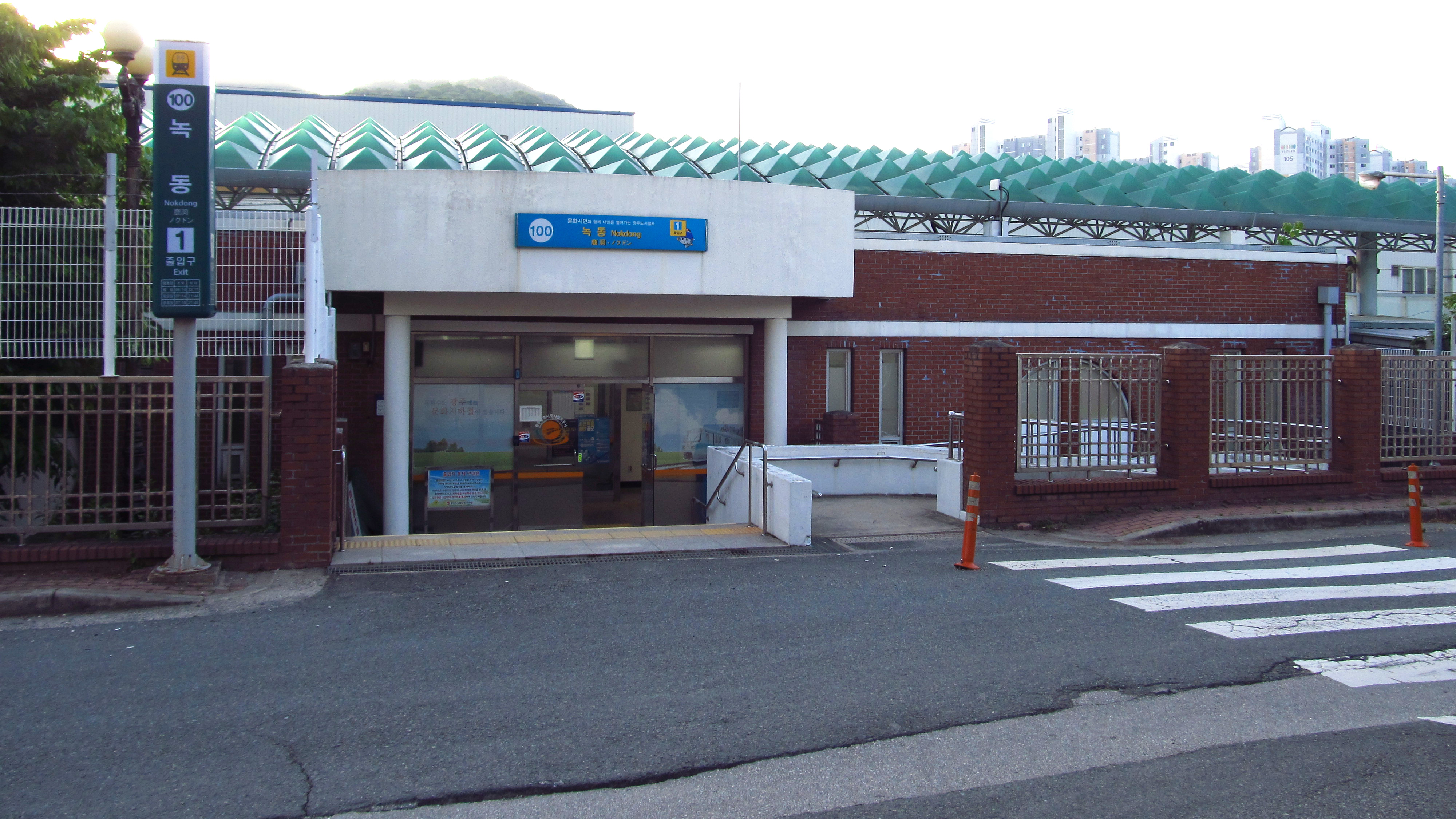 The building of Nokdong Station on Gwangju Metro Line 1 in Dong-gu, Gwangju, Republic of Korea(South Korea)